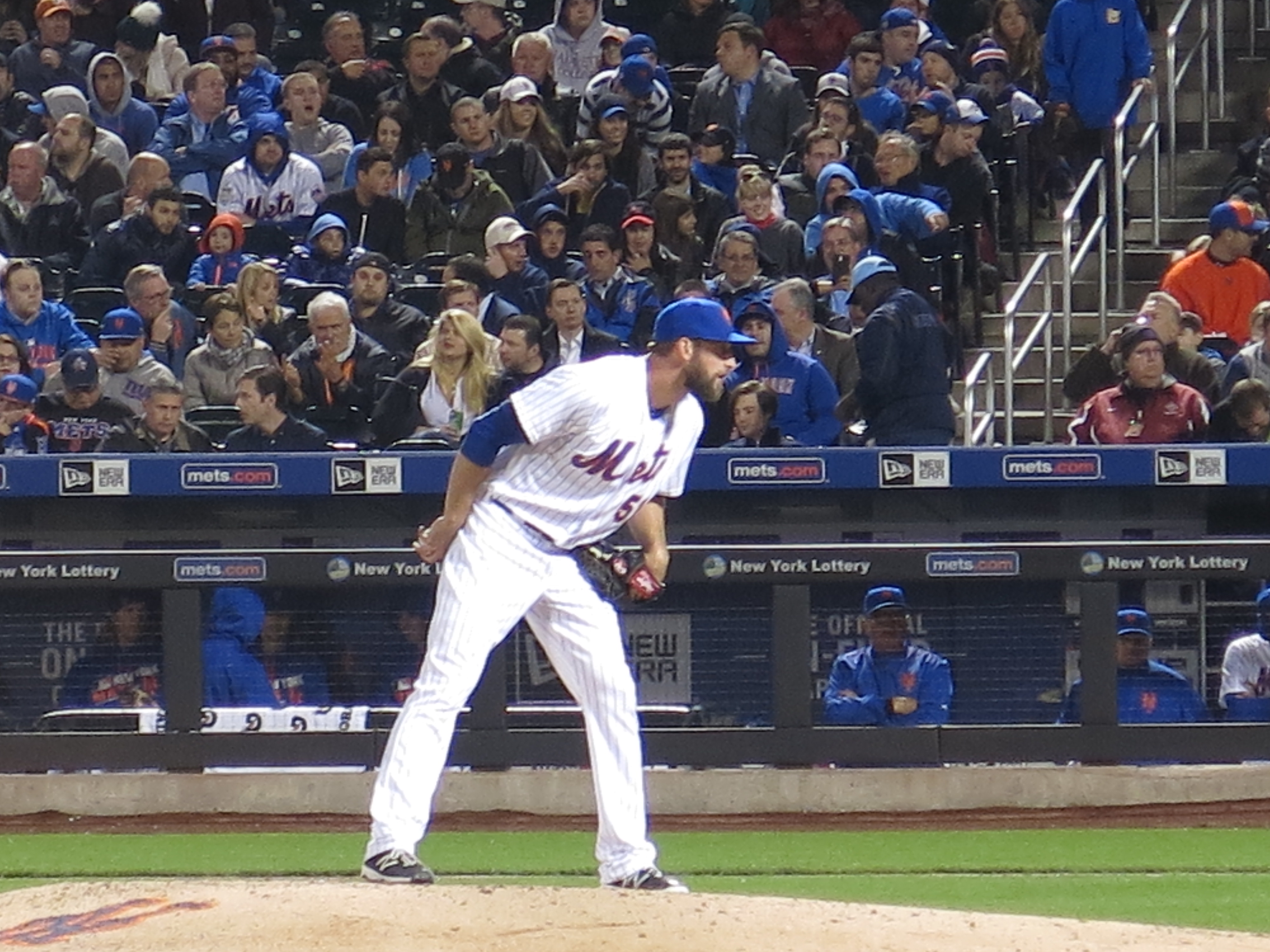 Jim Henderson pitching for the New York Mets, April 27, 2016.